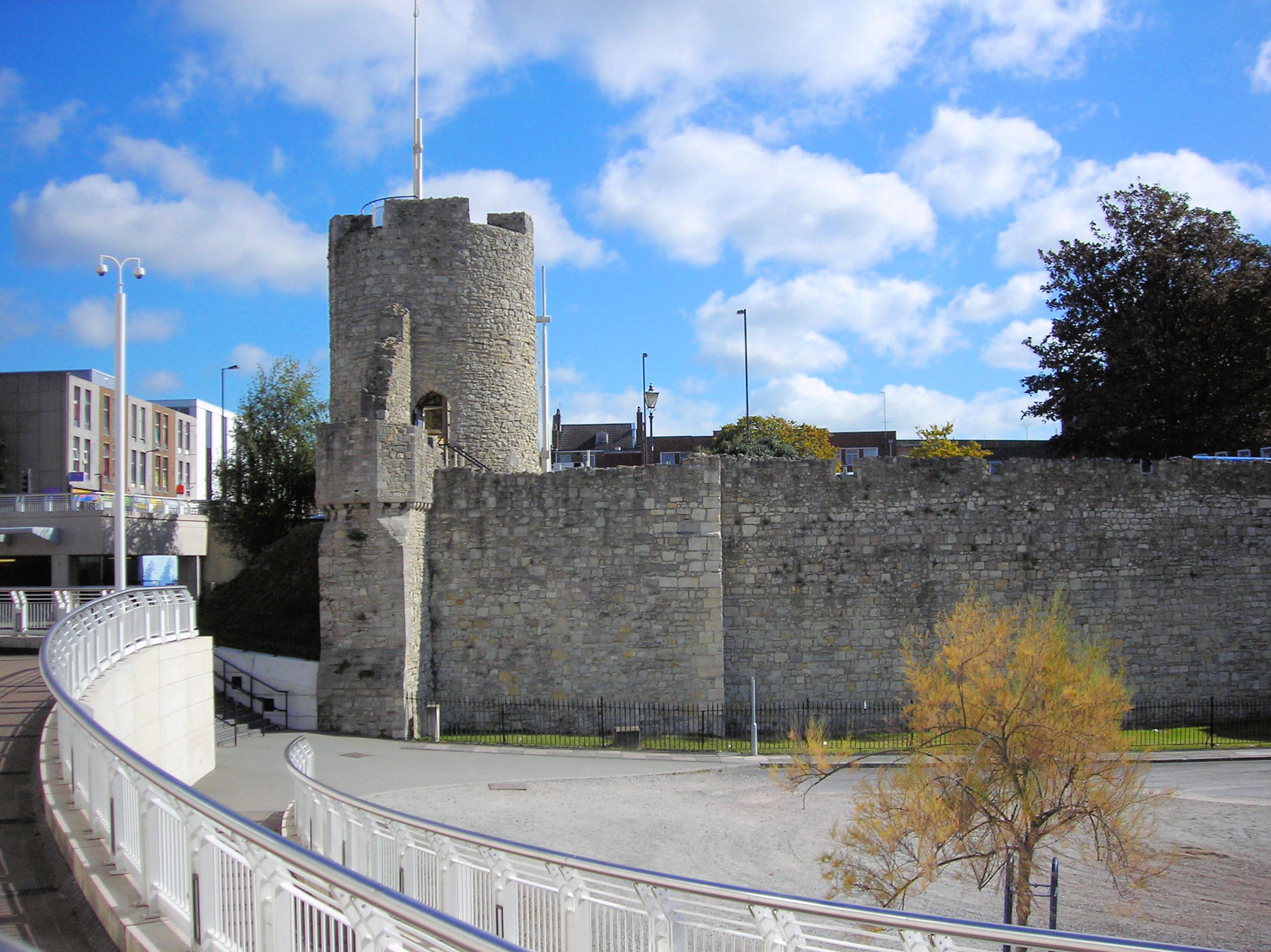 The Arundel Tower was built in 1290. It is 60 feet high, and was named after either Sir Bevis' horse Arundel or Sir John Arundel, who was a Governor of the town's castle. It was also nicknamed 'Windwhistle Tower'. As there were insufficient troops to effectively man the walls, each of the Guilds had a duty to maintain and defend part of the wall. Arundel tower and the nearby walls were the responsibility of the Shoemakers, Curries, Saddlers and Cobblers Guild. There is a gun tower adjoining the tower, which was built in Tudor times.